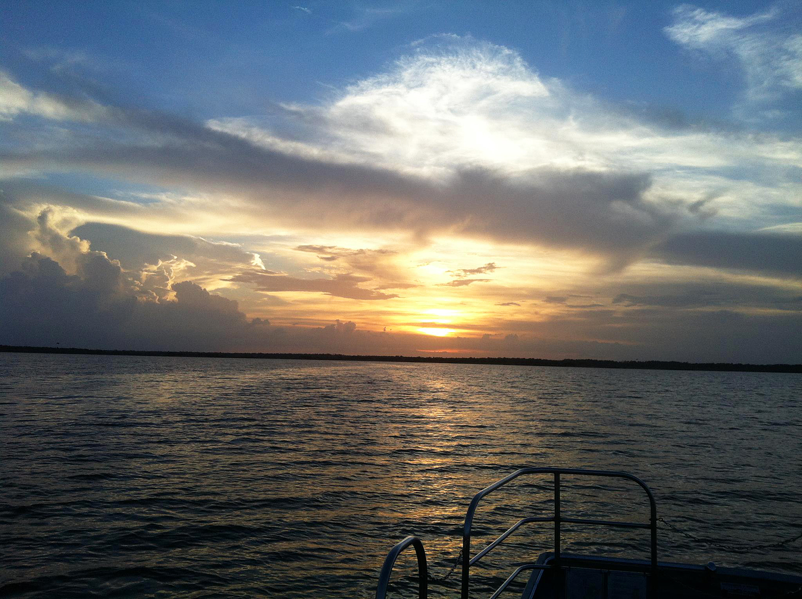 Black Hammock Sunset Airboat Rides.